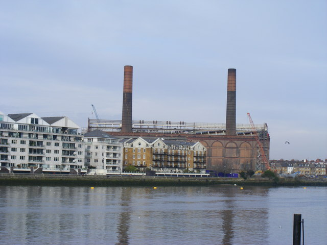 Chelsea Harbour and Lots Road Power Station Taken from Thames Path south of River Thames. Lotts Road Power Station is currently being redeveloped following its closure as power generator for London Underground